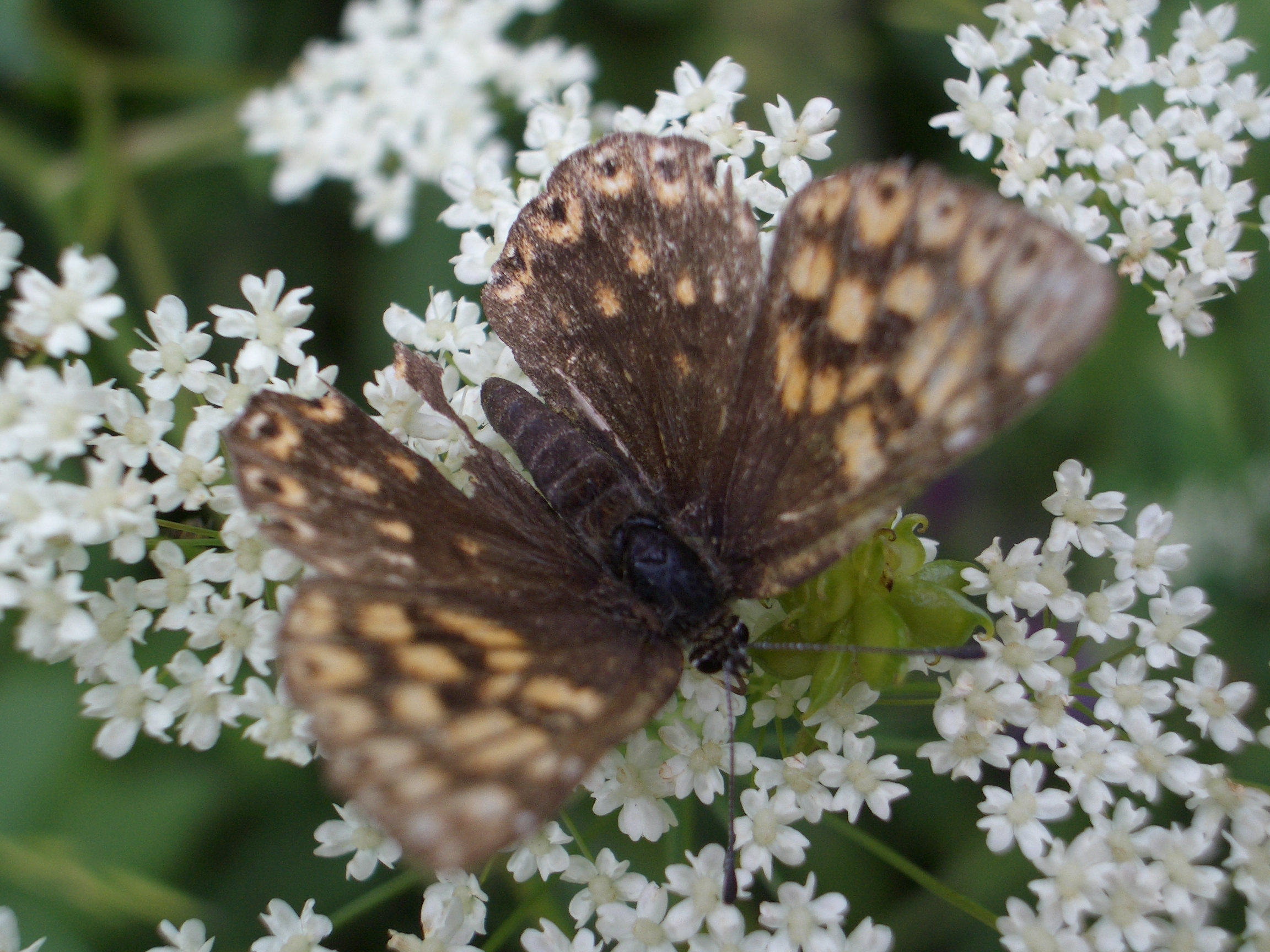 Hamearis lucina, taken in the Julian Alps, Slovenia.